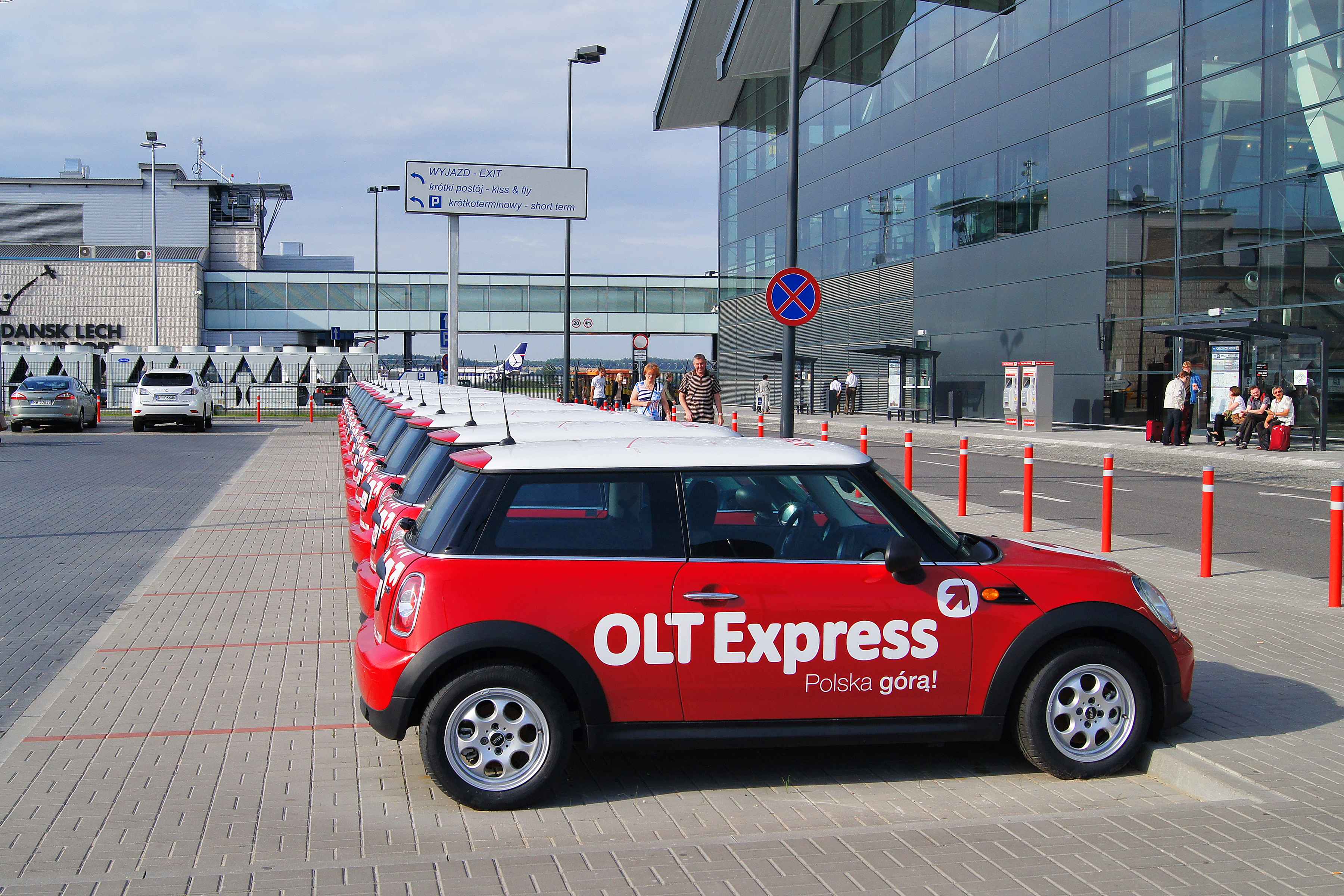 Cars Mini of polish airline OLT Express stand before Terminal 2 at Gdansk Lech Walesa Airport, Poland.